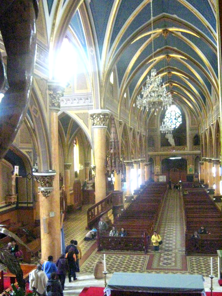 nave central desde el camarin de la basilica de ubate